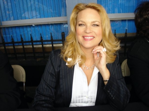 Photo of actress Leann Hunley ("Days of our Lives")